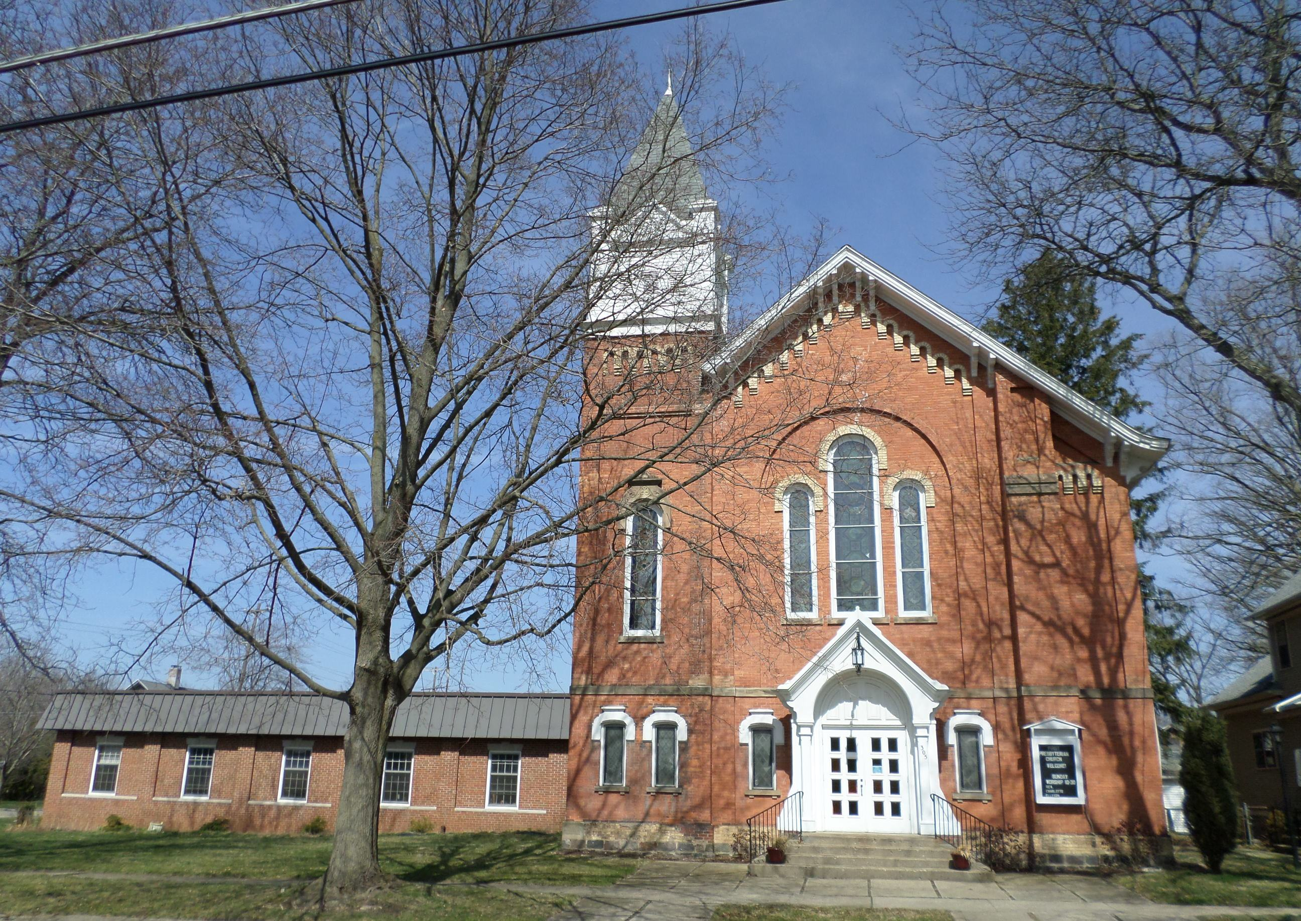 The First Presbyterian Church, located at 305 E Porter St, Albion, MI. The building is listed as a Michigan State Historic Site.